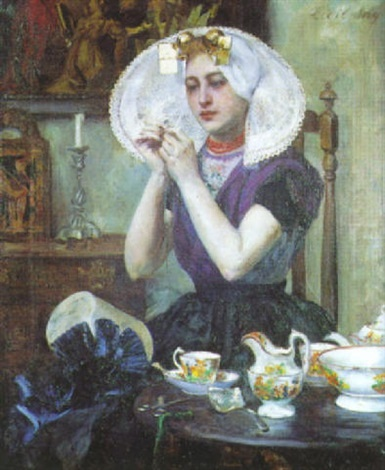 La dentelliere